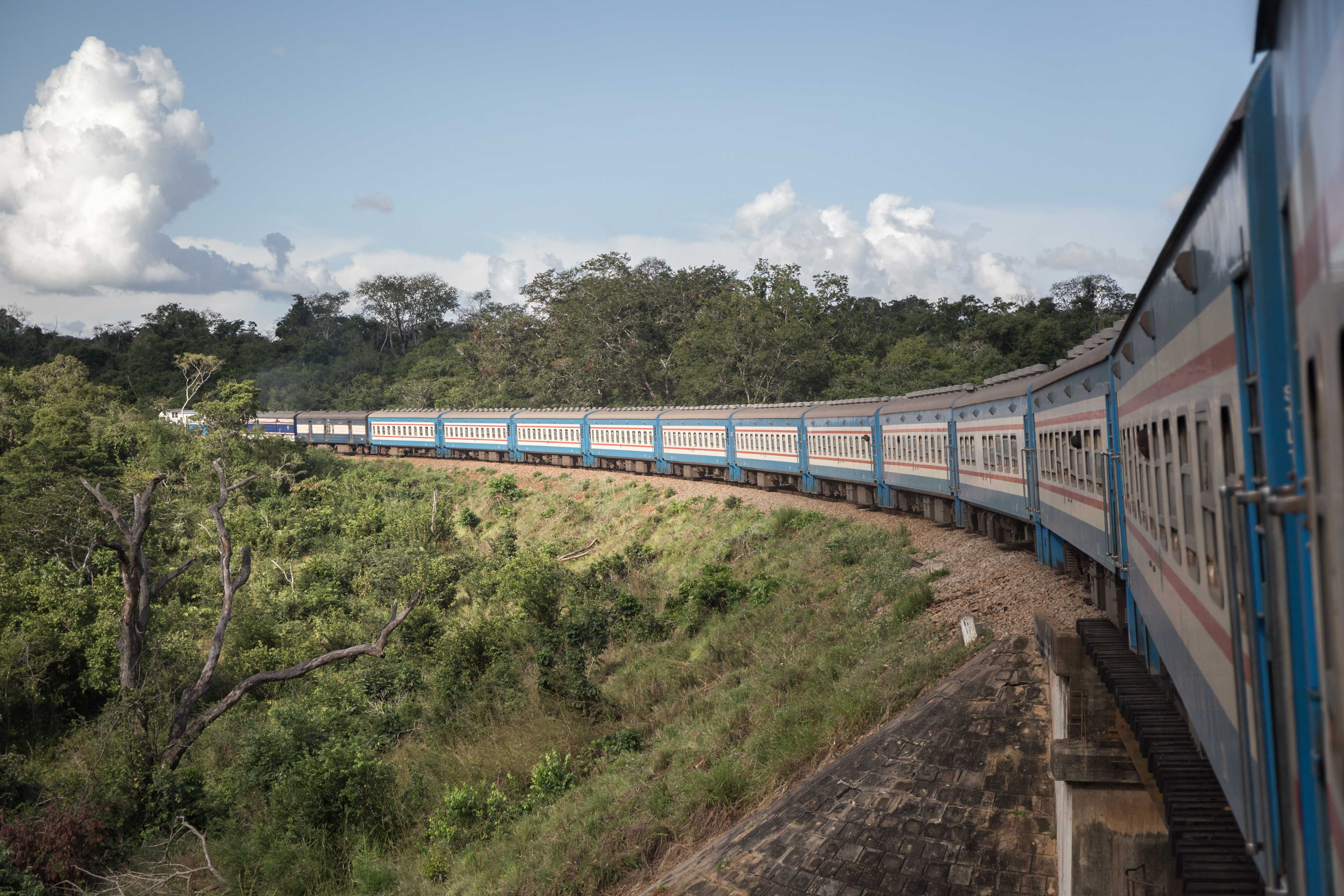 This is an image with the theme "Africa on the Move or Transport" from: Tanzania